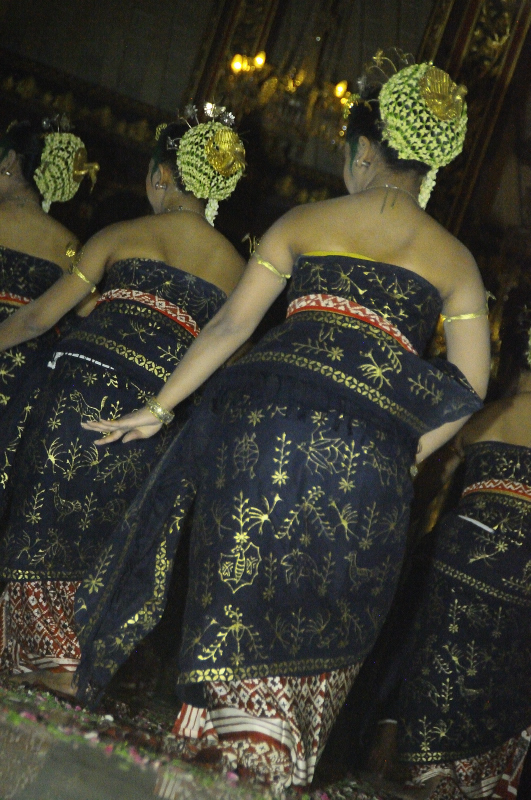 Sacred Royal Dance of Bedhoyo Ketawang performed at 4th ceremony of Pisowanan Agung Tingalan Dalem Jumenengan SISKS. Pakoe Boewono XIII, Karaton Surakarta Hadiningrat, Solo, Indonesia